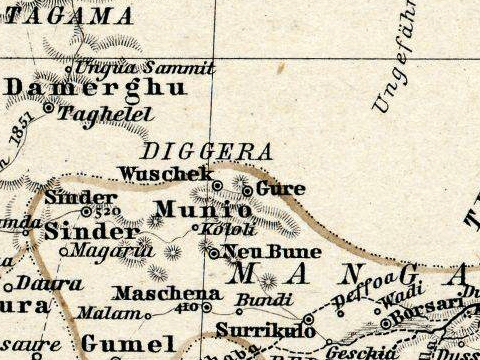 Gure (Gouré) in Adolf Stielers Handatlas, 1891.